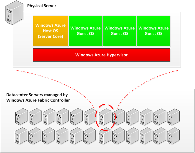 Windows Azure Computes and Management Architecture